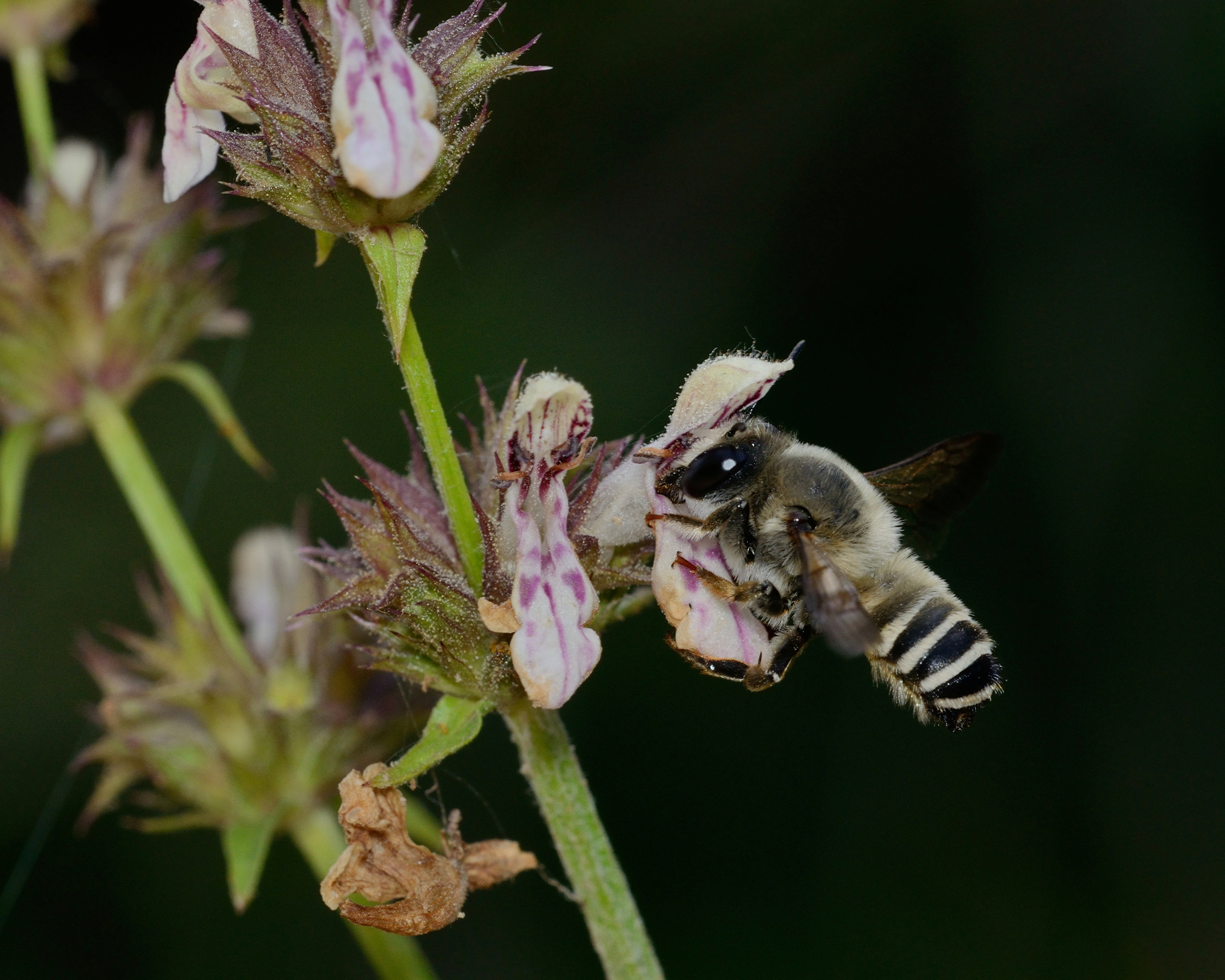 Megachile (Chalicodoma) hungarica Mocsáry 1877, male foraging on Stachys distans, Mount Meron, Israel, June 3, 2014.